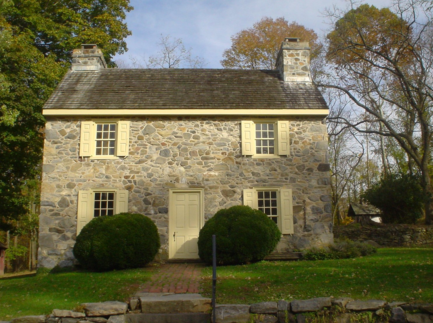 the Miller's house at Newlin Mills, built 1739. On NRHP. This is my own work and I donate it to the public domain.